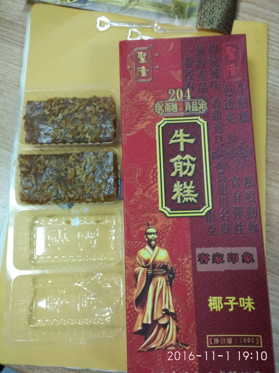 A photo of Cowhells Cake